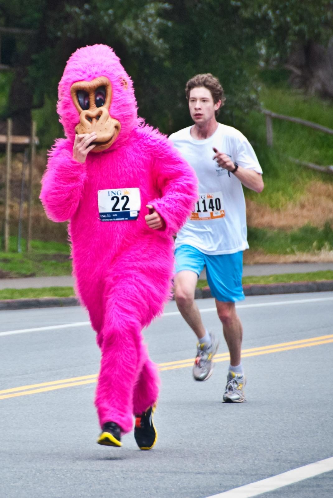 Pink Gorilla joins the Bay to Breakers race